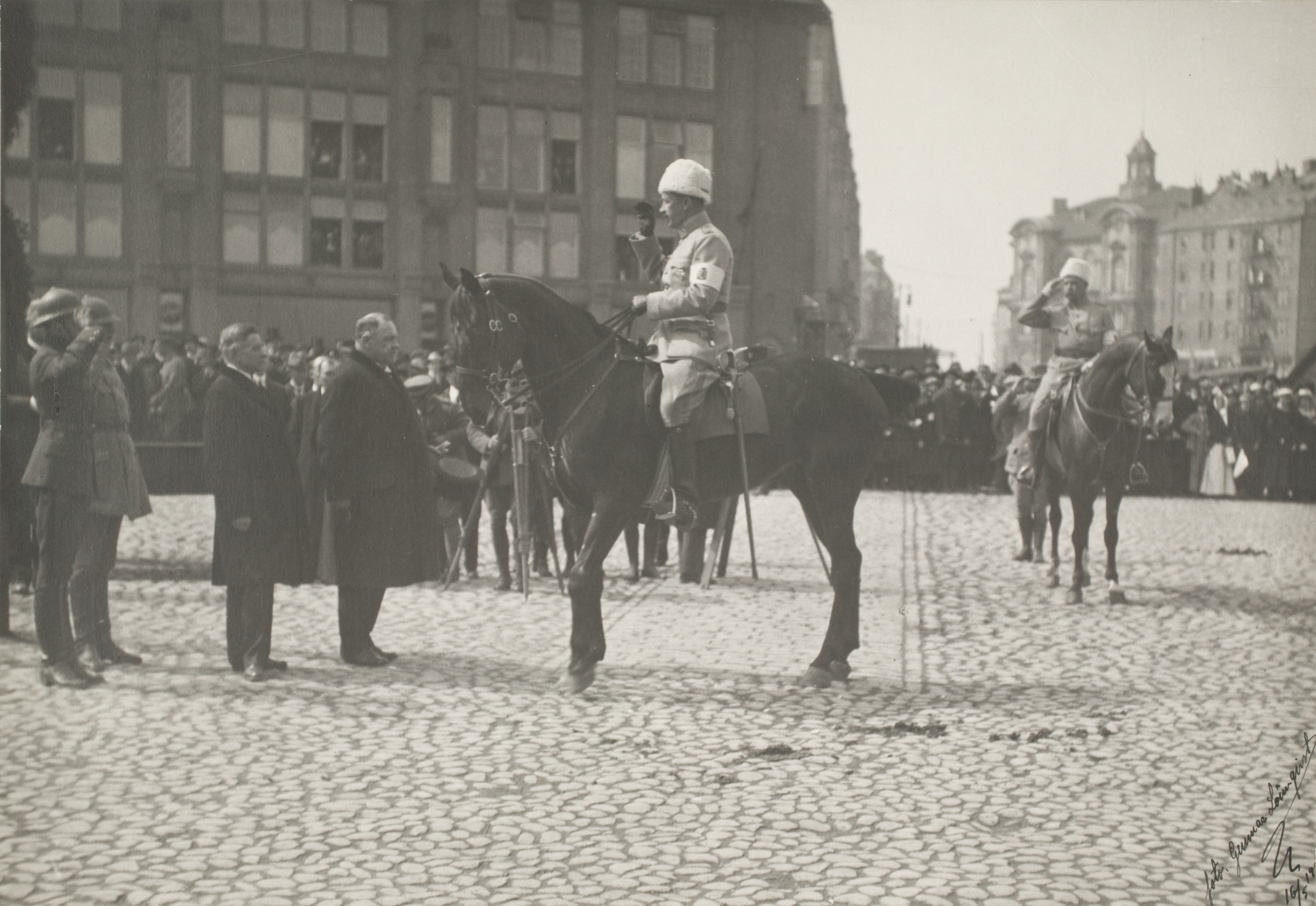 C.G.E. Mannerheim greets mayor Johannes von Haartman at the victory parade in Helsinki 16.5.1918